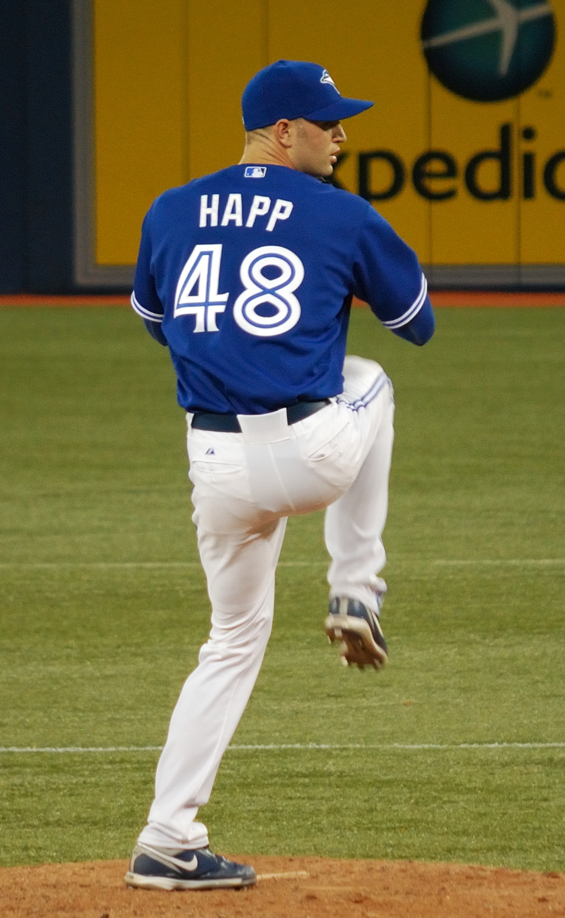 J. A. Happ